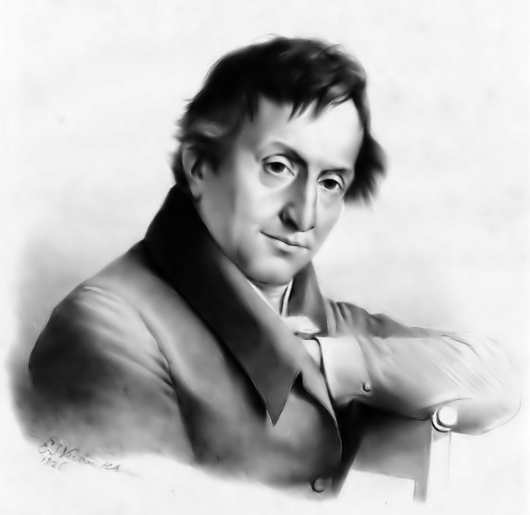 Henri van Assche 1826